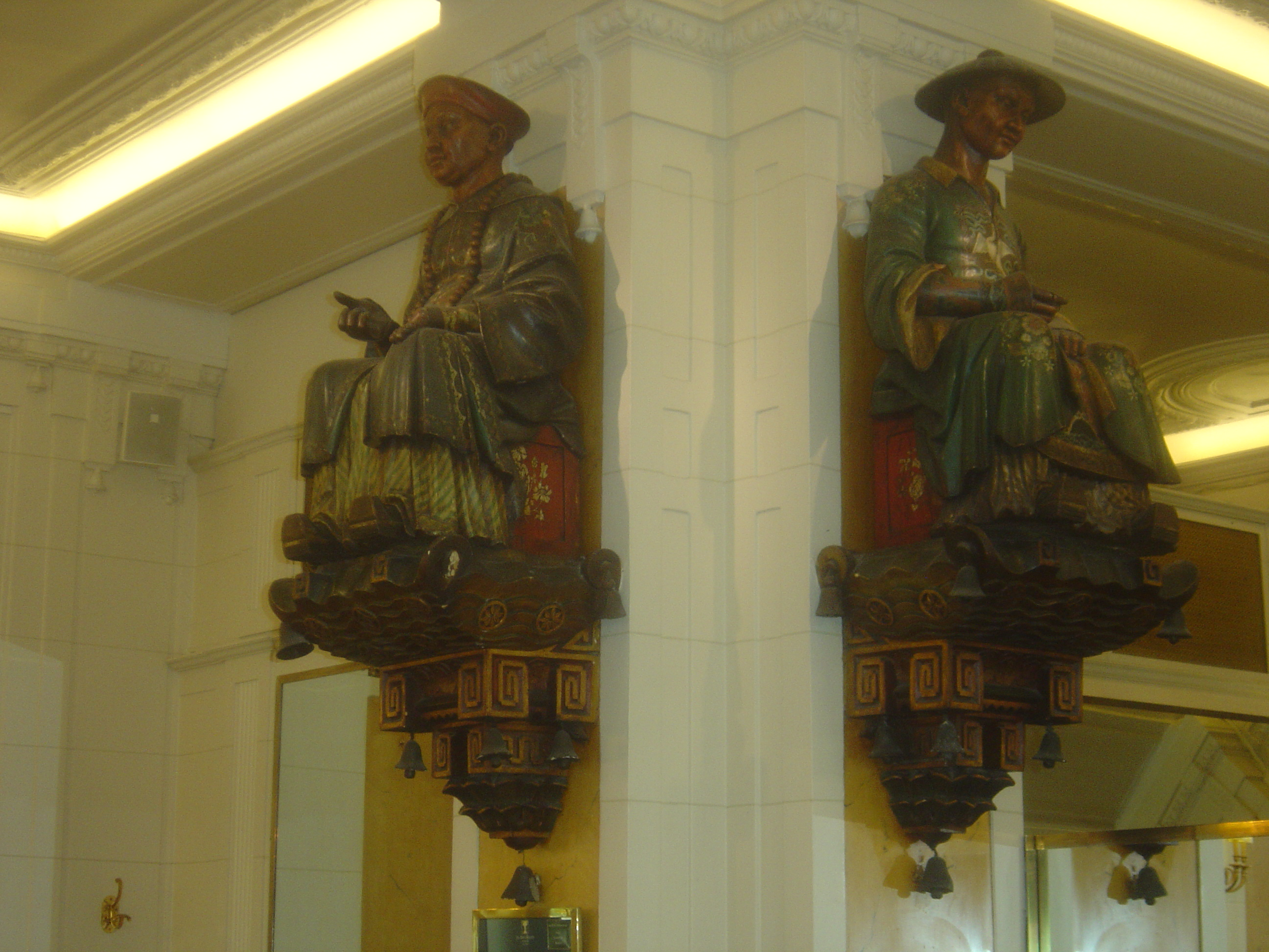 Statues, Les Deux Magots, Paris